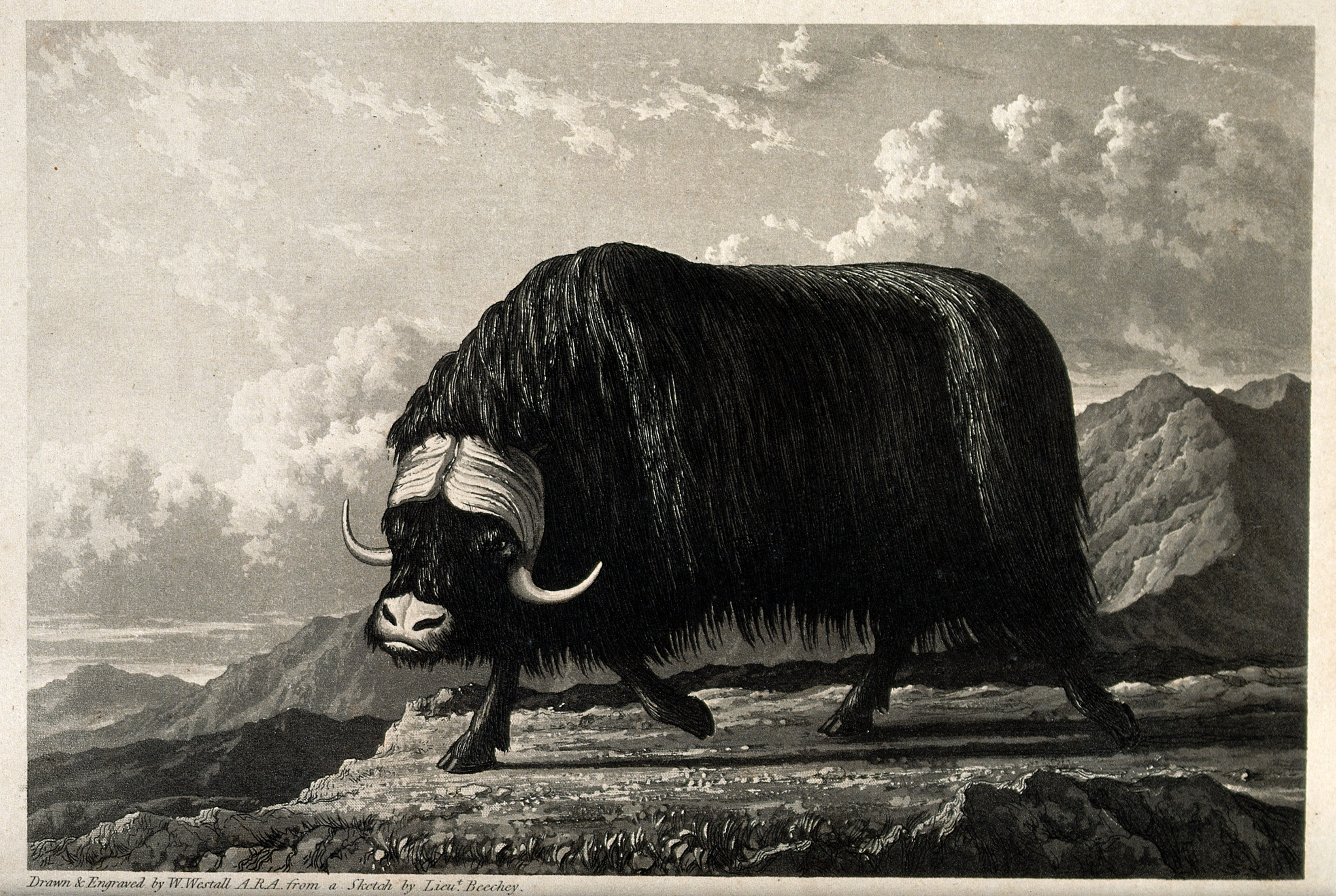 A musk-ox bull on Melville Island, Canada. Mezzotint with engraving by W. Westall, n.d. [ca 1821], after Lieutenant Beechey. Iconographic Collections Keywords: Richard Brydges Beechey; William Westall